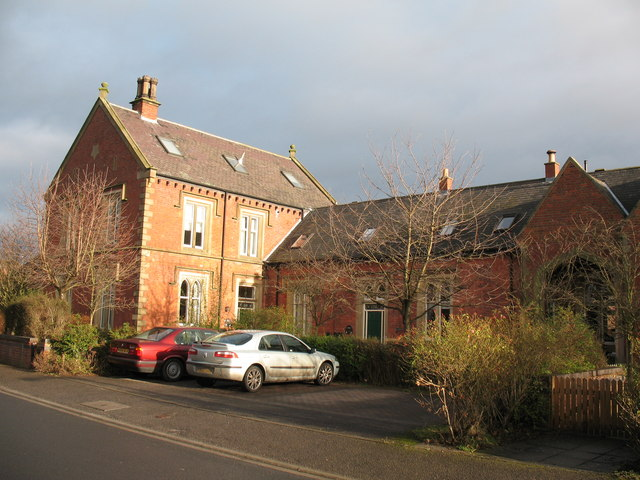 Old Railway Station, Ripon The old railway station stood a mile north of the city centre and welcomed its first train on May 31st 1848. The station remained open for passenger traffic until 1967 when the line north and south was closed. Now there are calls for a new line to link Ripon with Harrogate. The station buildings were converted for residential use.